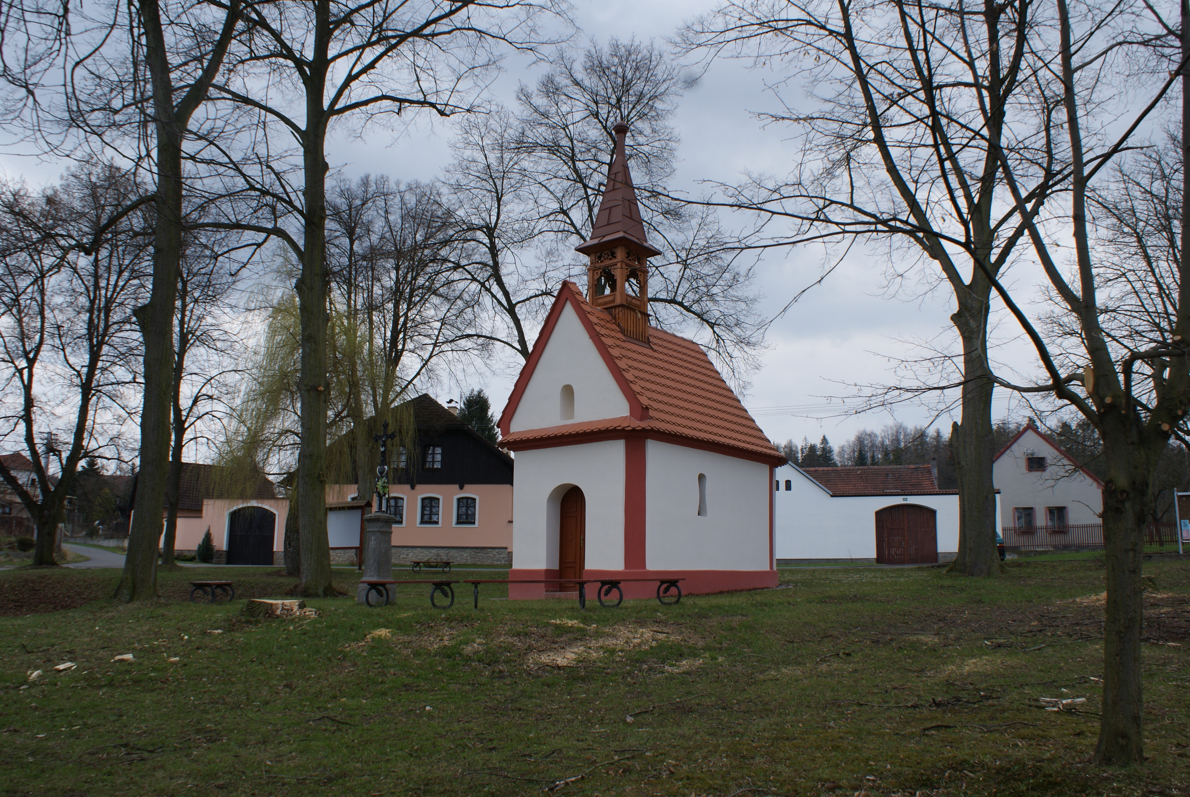 Dunovice, a village in Strakonice district, Czech Republic. A chapel on the village common.